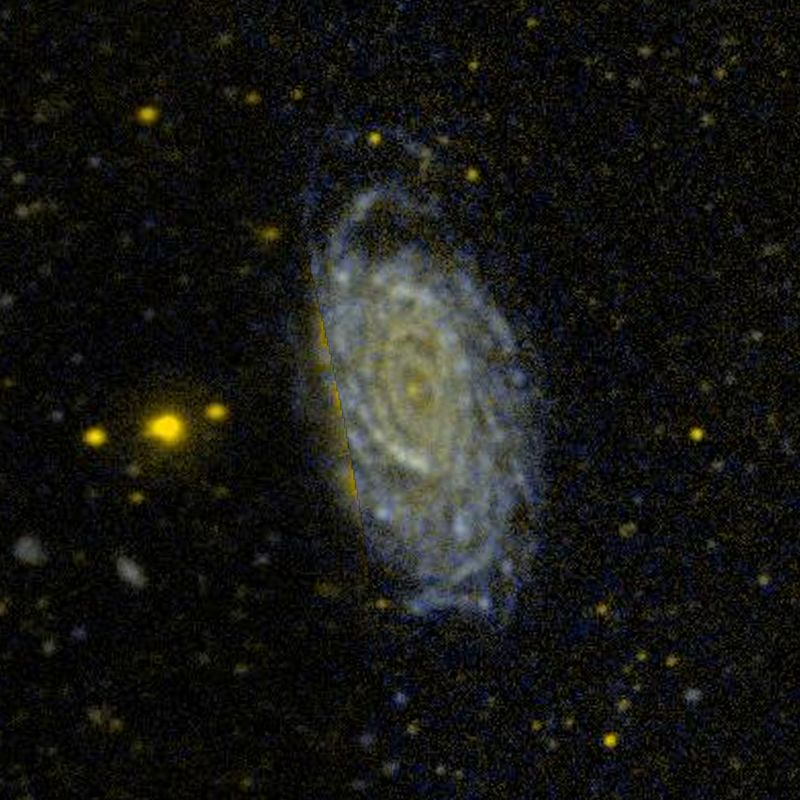 NGC 5985 galaxy from GALEX